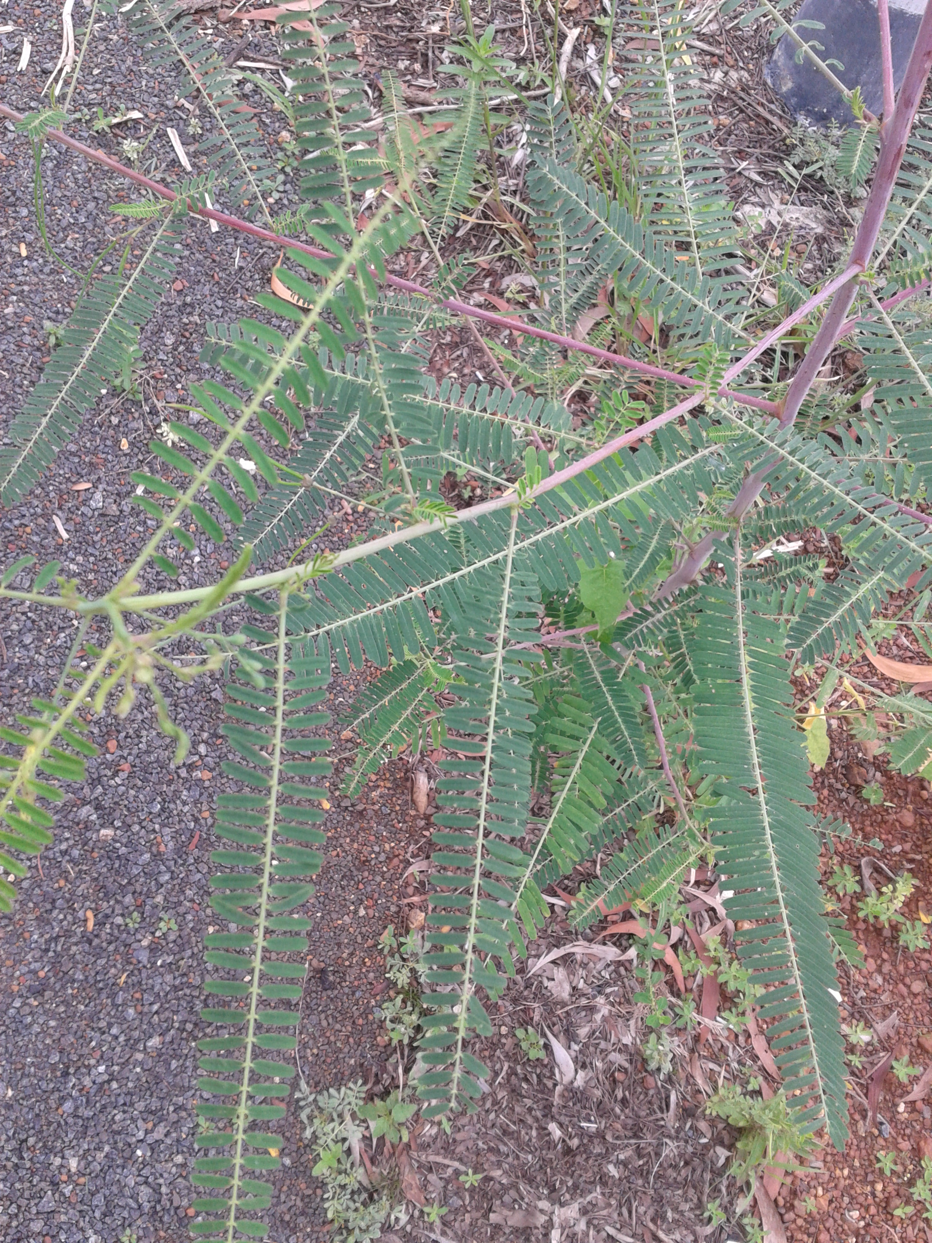 Common name : Prickly sesban Botanical name : Sesbania aculeate Tamil name :Malai-murunkai ‘mountain drumstick tree’ . Small tree having brown dotted yellow flowers ; Flowers are edible ; Wood , fodder, manure are some ways it is useful in ; Natural gum is prepared from this tree ; Functions as source for paper fibre ; Can be planted to improve nitrogen strength to soil;Its beans are a medicine to treat ring worm and other skin infections ; Its function as a famine food is conscpicuous . In shot - Stems and leaflets of Prickly sesban .